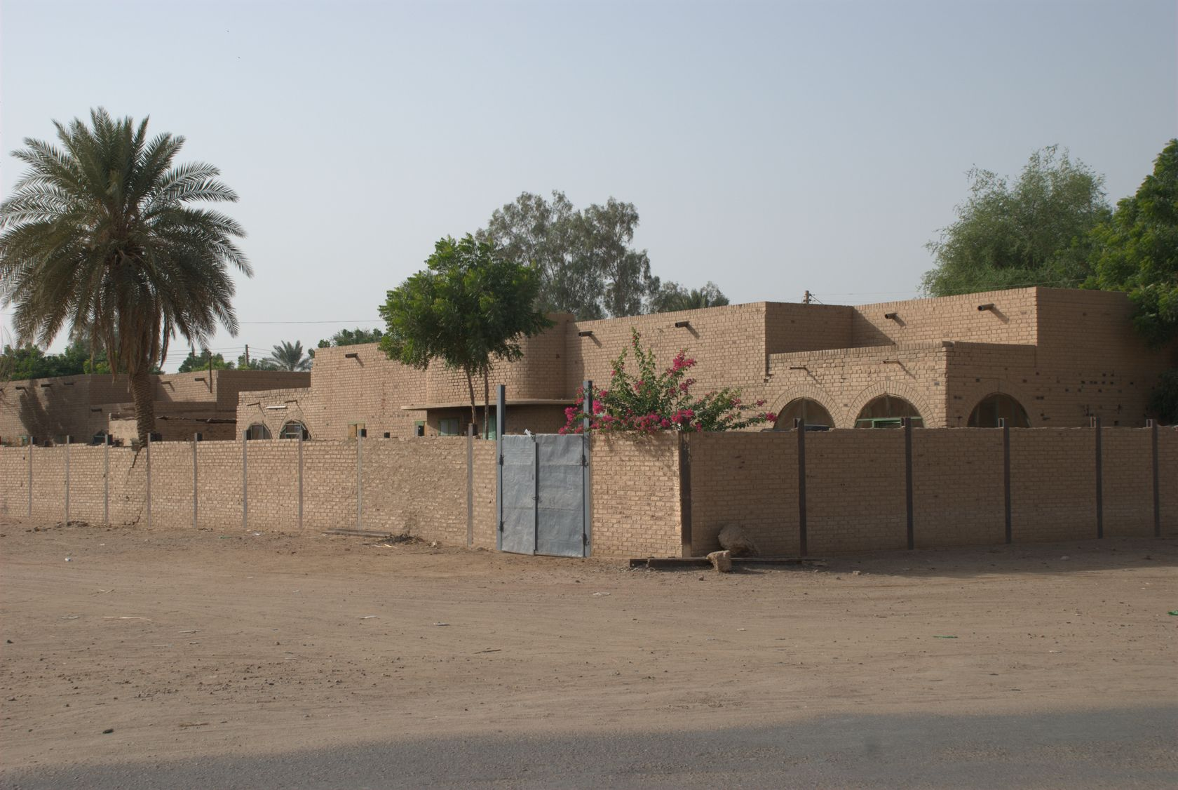 Houses in British quarter - Atbara, Sudan.